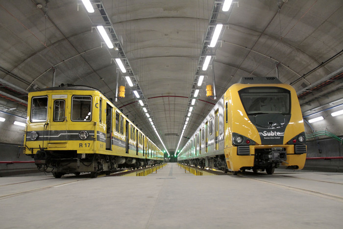 A Buenos Aires Underground 300 Series train next to a Siemens O&K train at the Parque Patricios workshops on Line H.